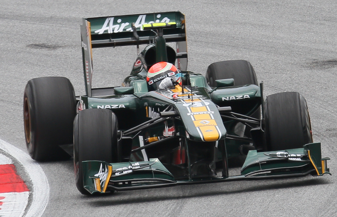 Formula One 2011 Rd.2 Malaysian GP: Jarno Trulli (Lotus) during the third practice session on Saturday.